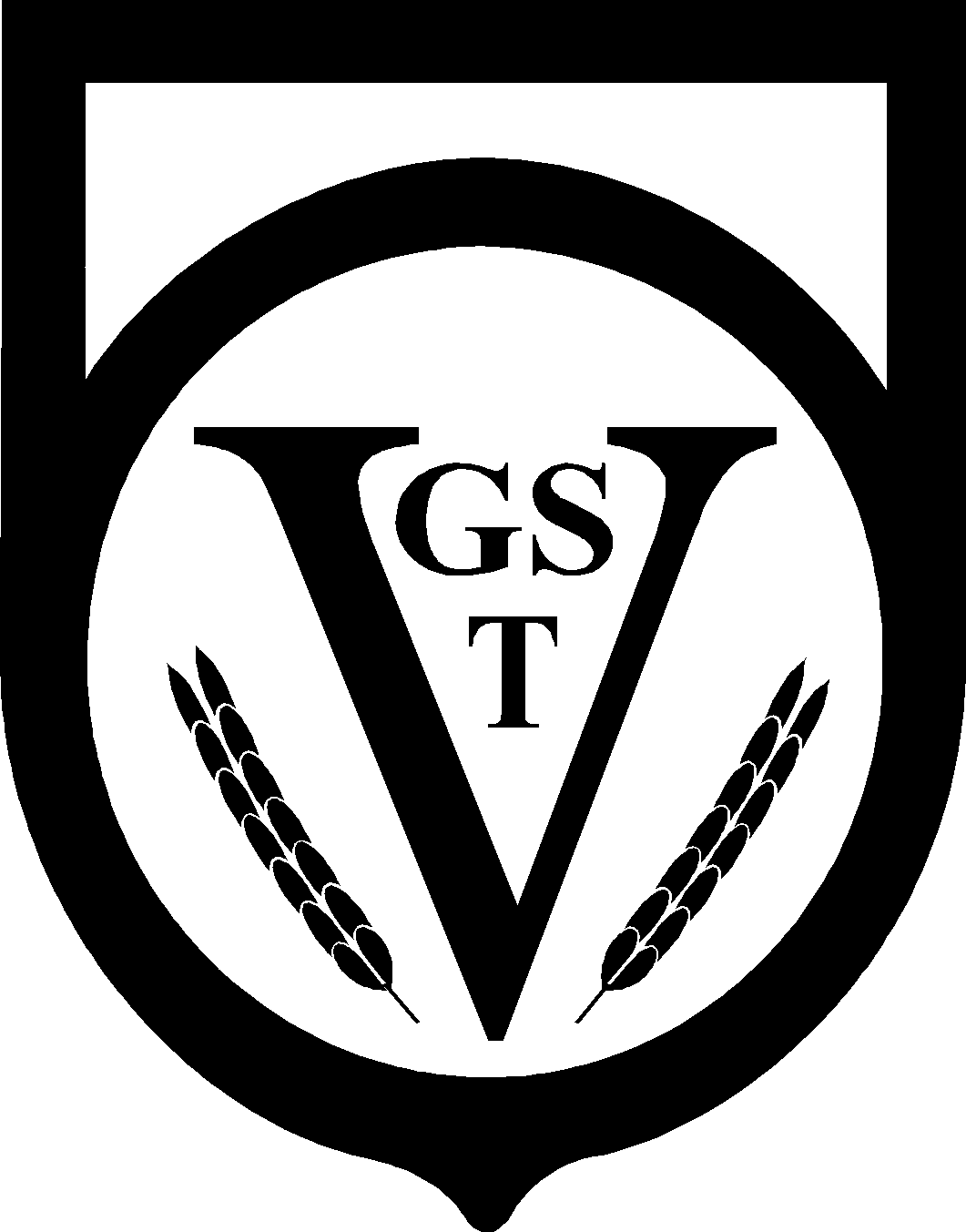 Logo of the student association VGST in Enschede, \the Netherlands